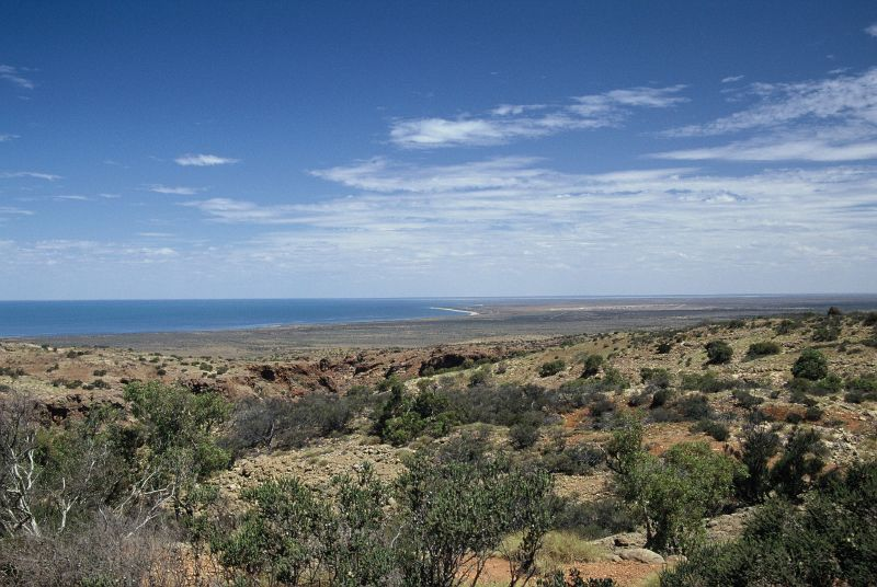 Looking towards the Ningaloo Marine Park in Western Australia